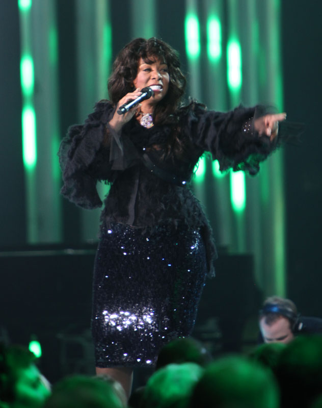 Donna Summer at The Nobel Peace Price Concert 2009